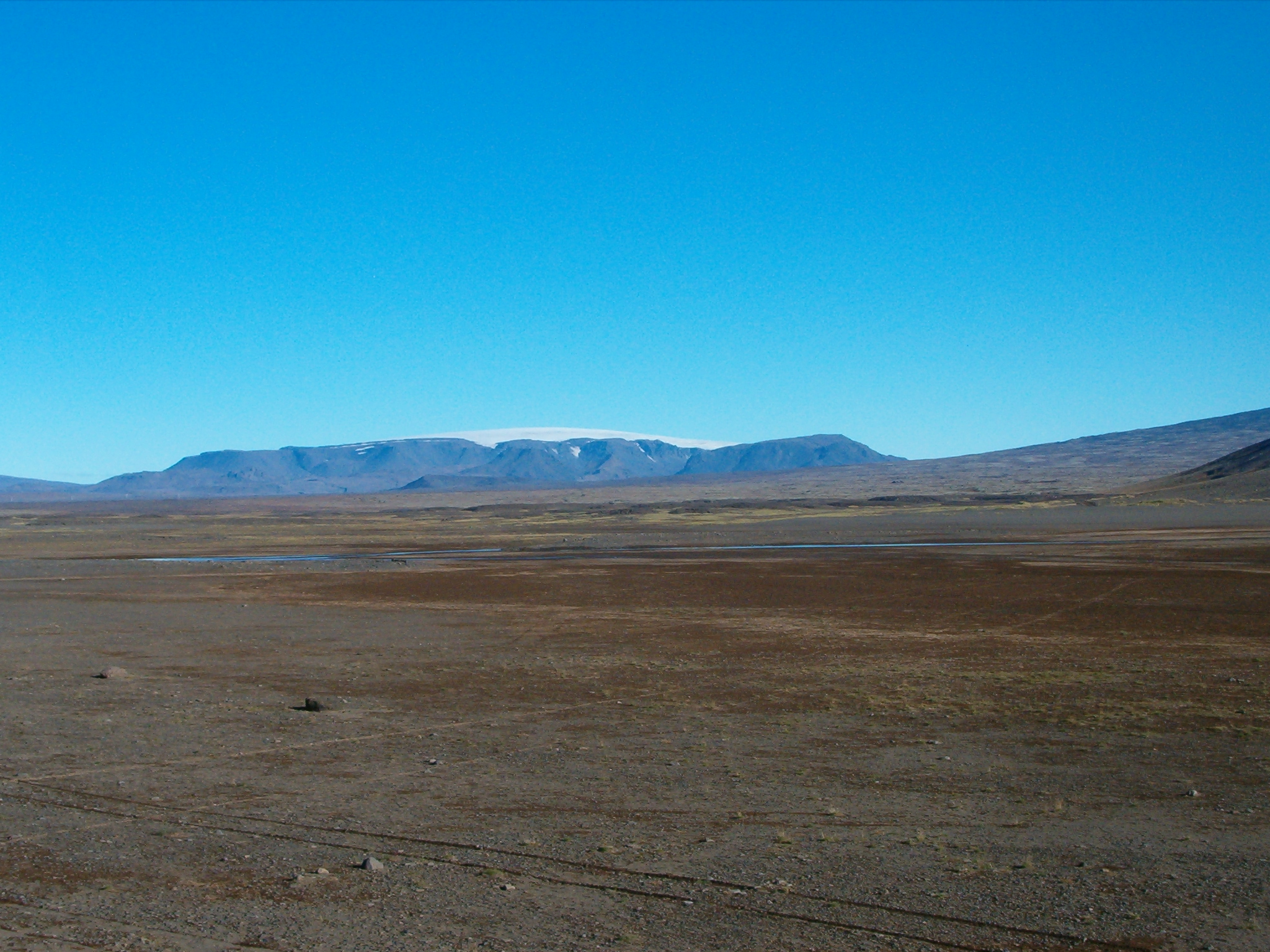 Thorisjokull